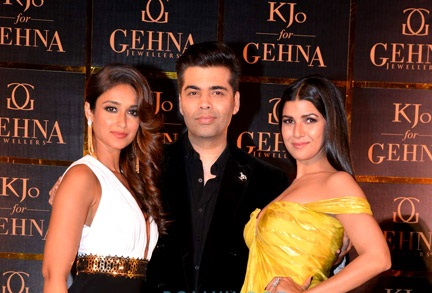 Gehna Jewellers unveil the 'KJO For Gehna' line by Karan Johar